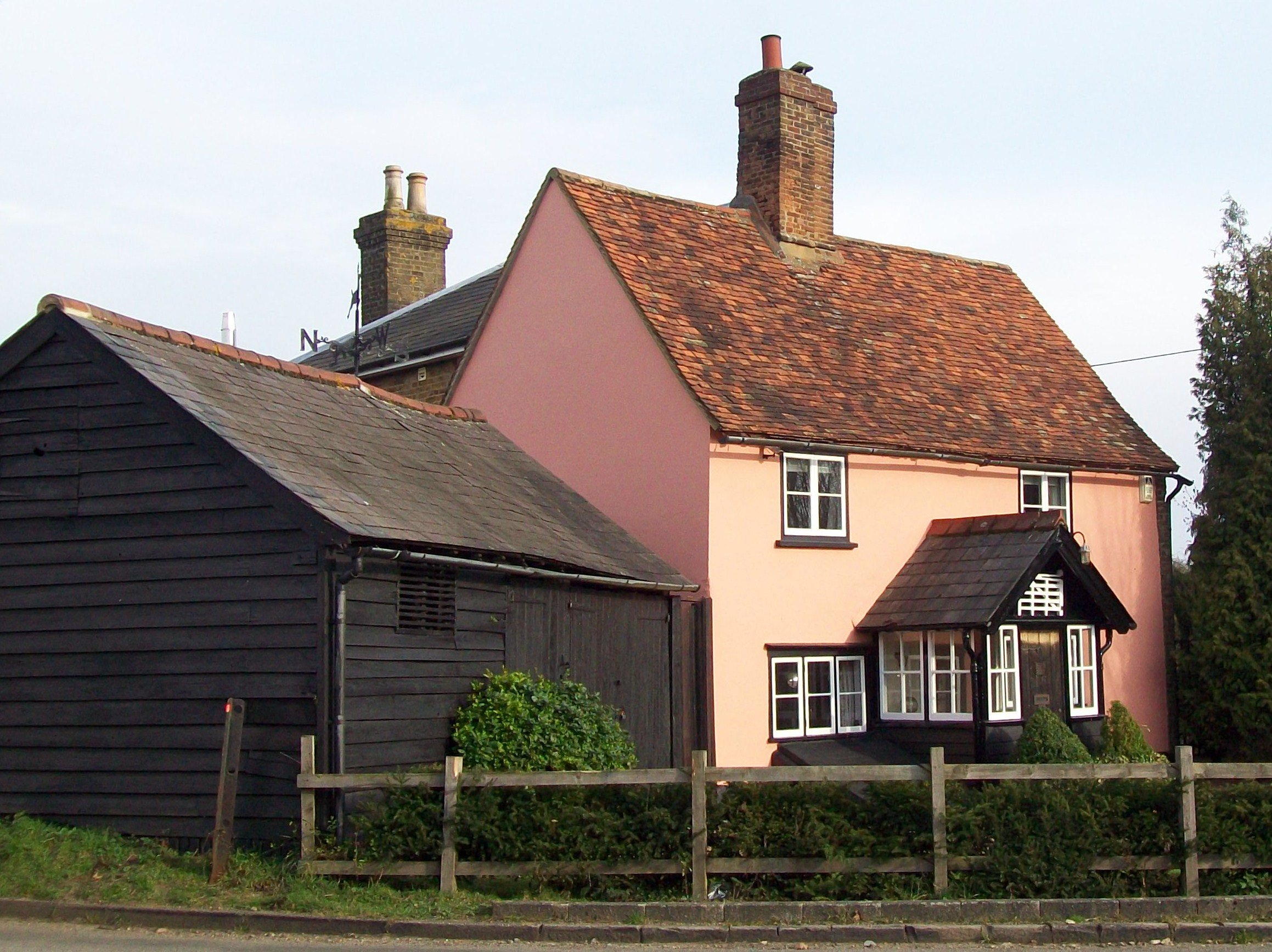 Gate Cottage, Whempstead, Hertfordshire, 12 March 2011. A Grade II Listed Building.